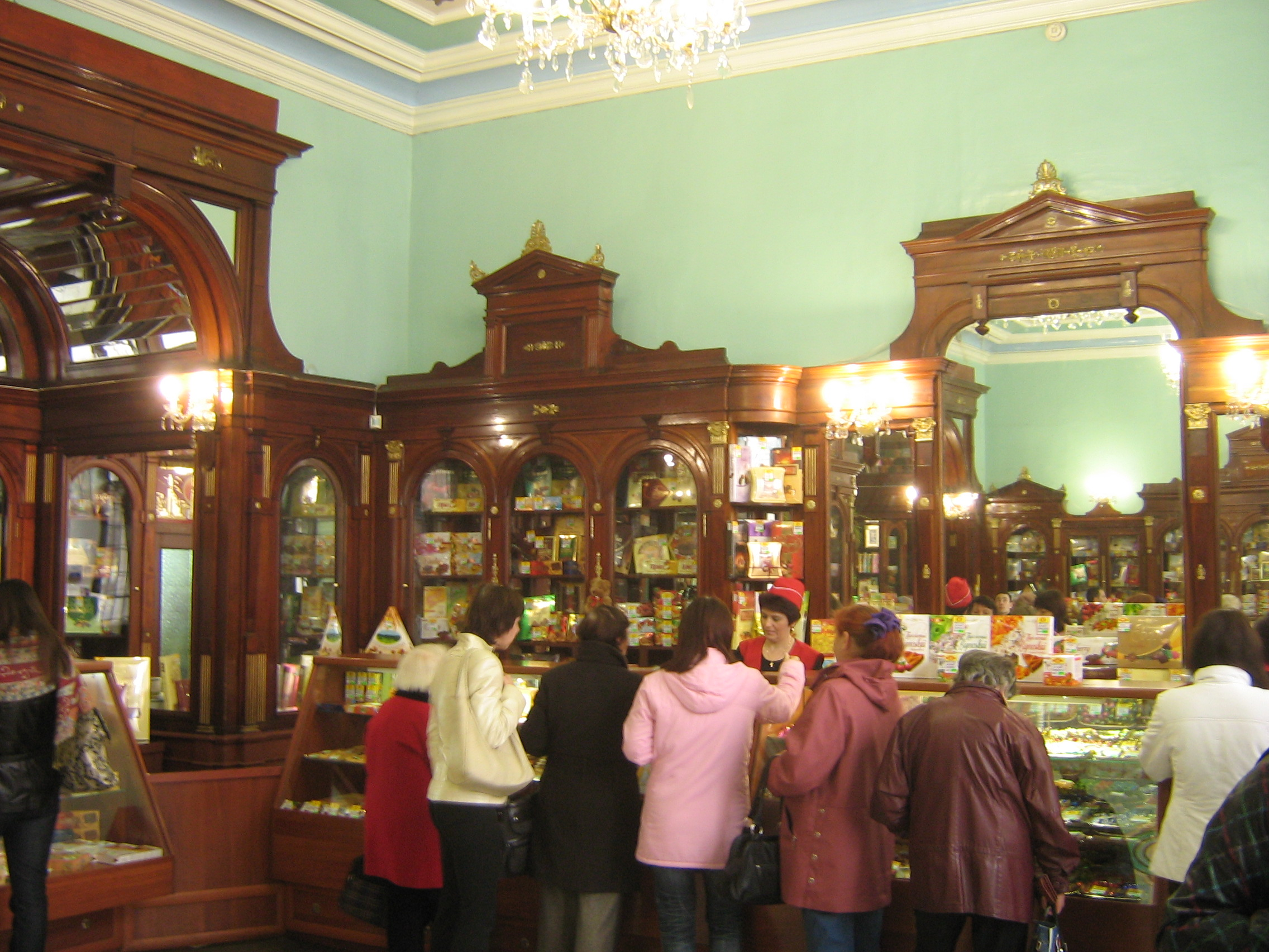 Shop "Bear cub".Corporation " Biscuit - Chocolate". Kharkiv.